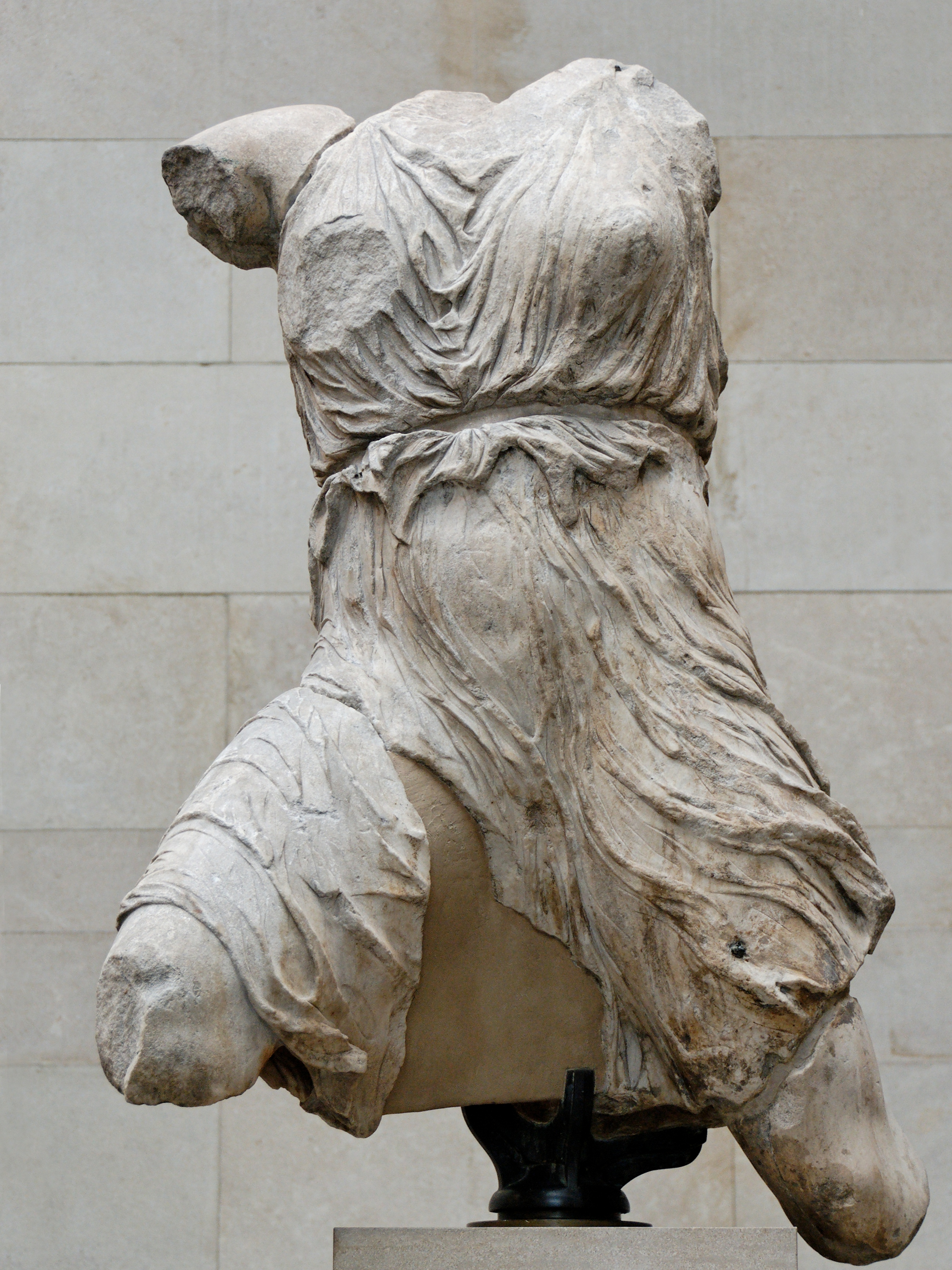 Iris. West pediment N, Parthenon, ca. 447–433 BC.